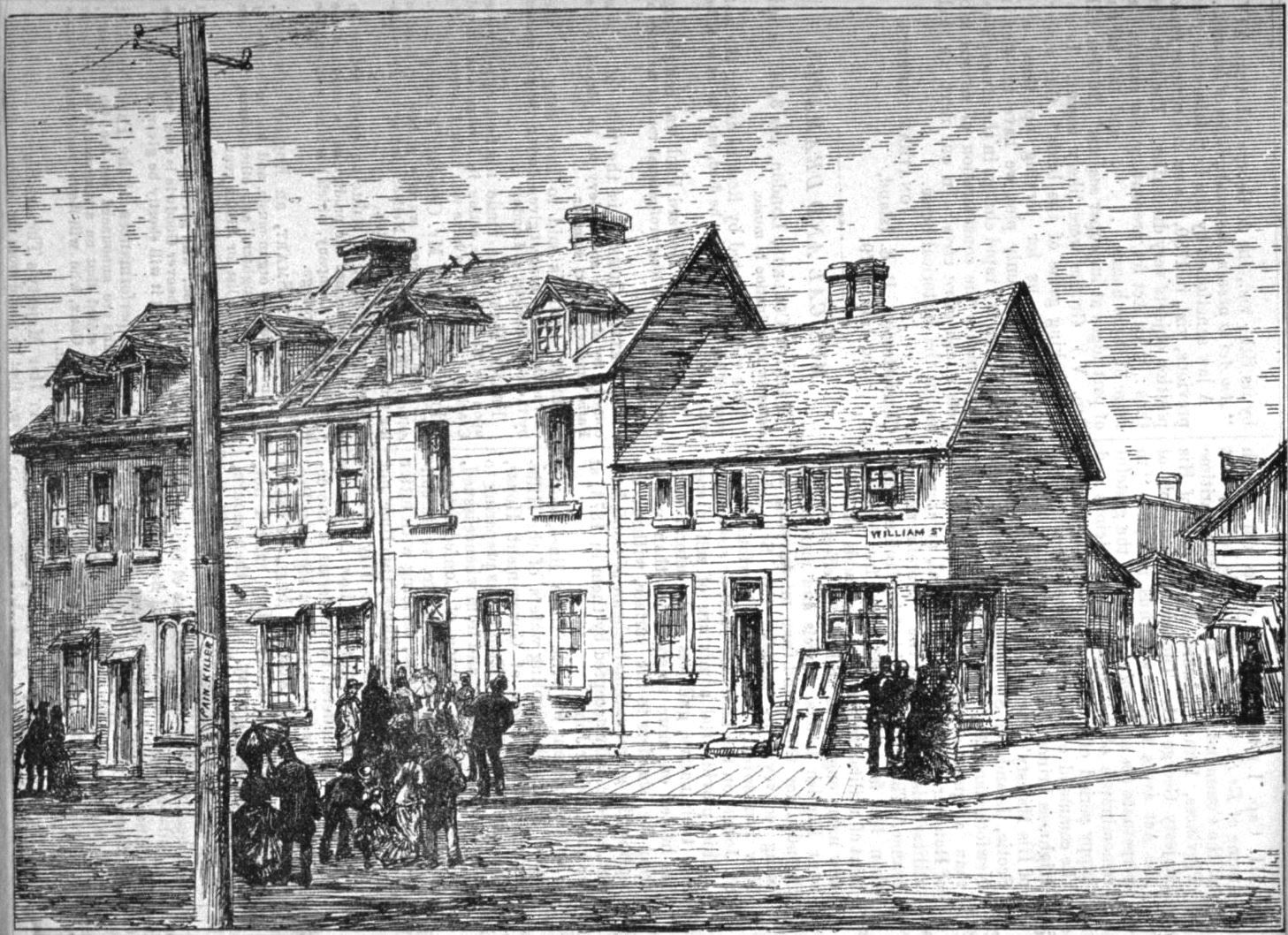 Montreal - Scene of the Gallagher Murder, William Street